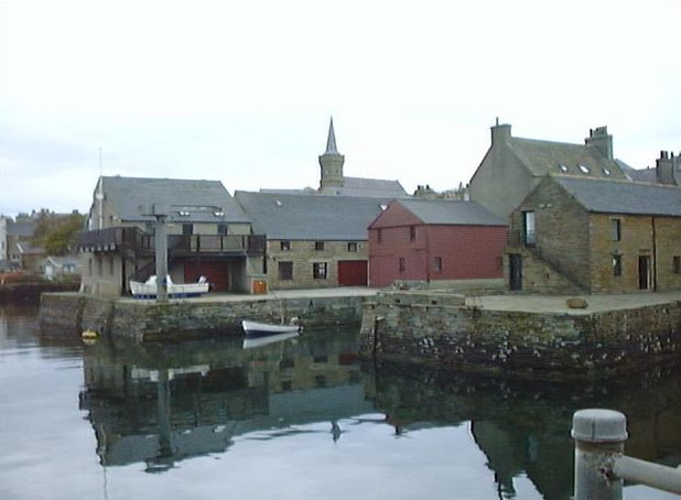 Pier, Stromness. Stromness has a lovely, busy harbour. The Ferry from Scrabster docks here and the harbour itself is very busy.